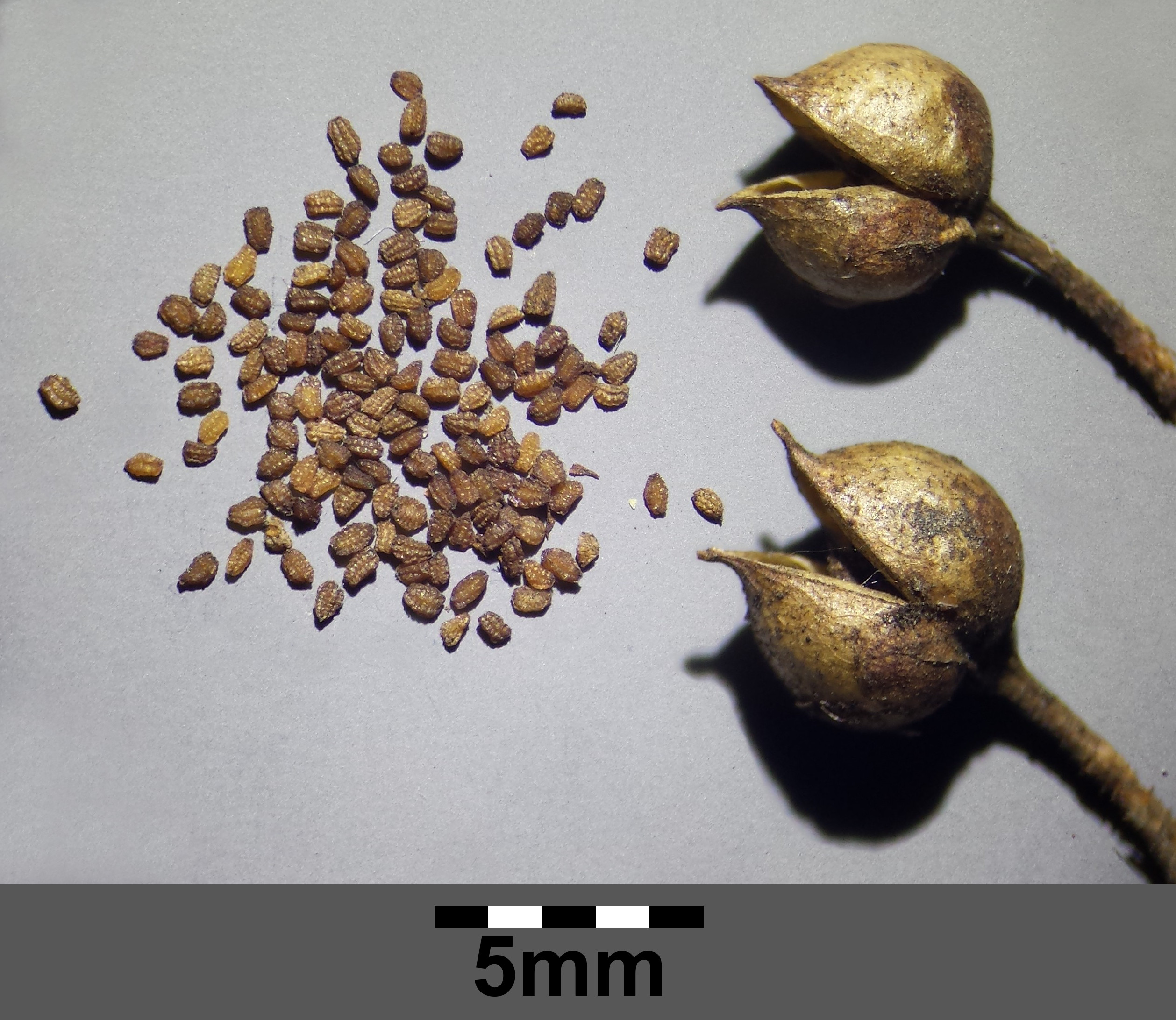 Fruits with seeds Taxonym: Scrophularia umbrosa ss Fischer et al. EfÖLS 2008 ISBN 978-3-85474-187-9 Location: near Bruderndorf, district Korneuburg, Lower Austria - ca. 225 m a.s.l. (leg. 2015-20-31) Habitat: slope of a stream